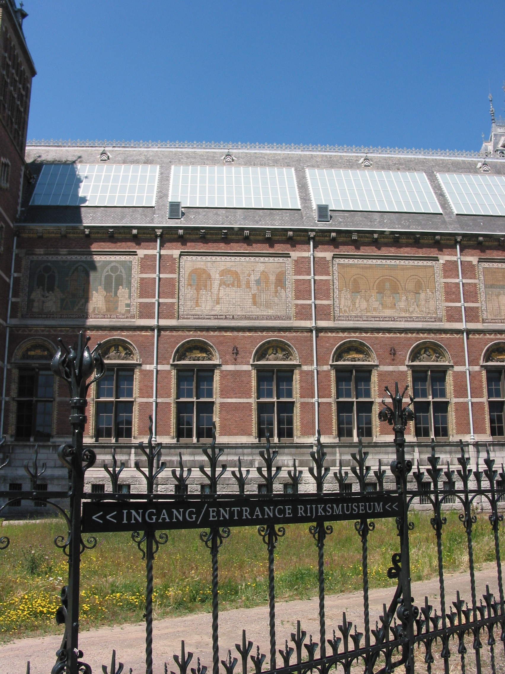 East façade of the Rijksmuseum, Amsterdam, detail.